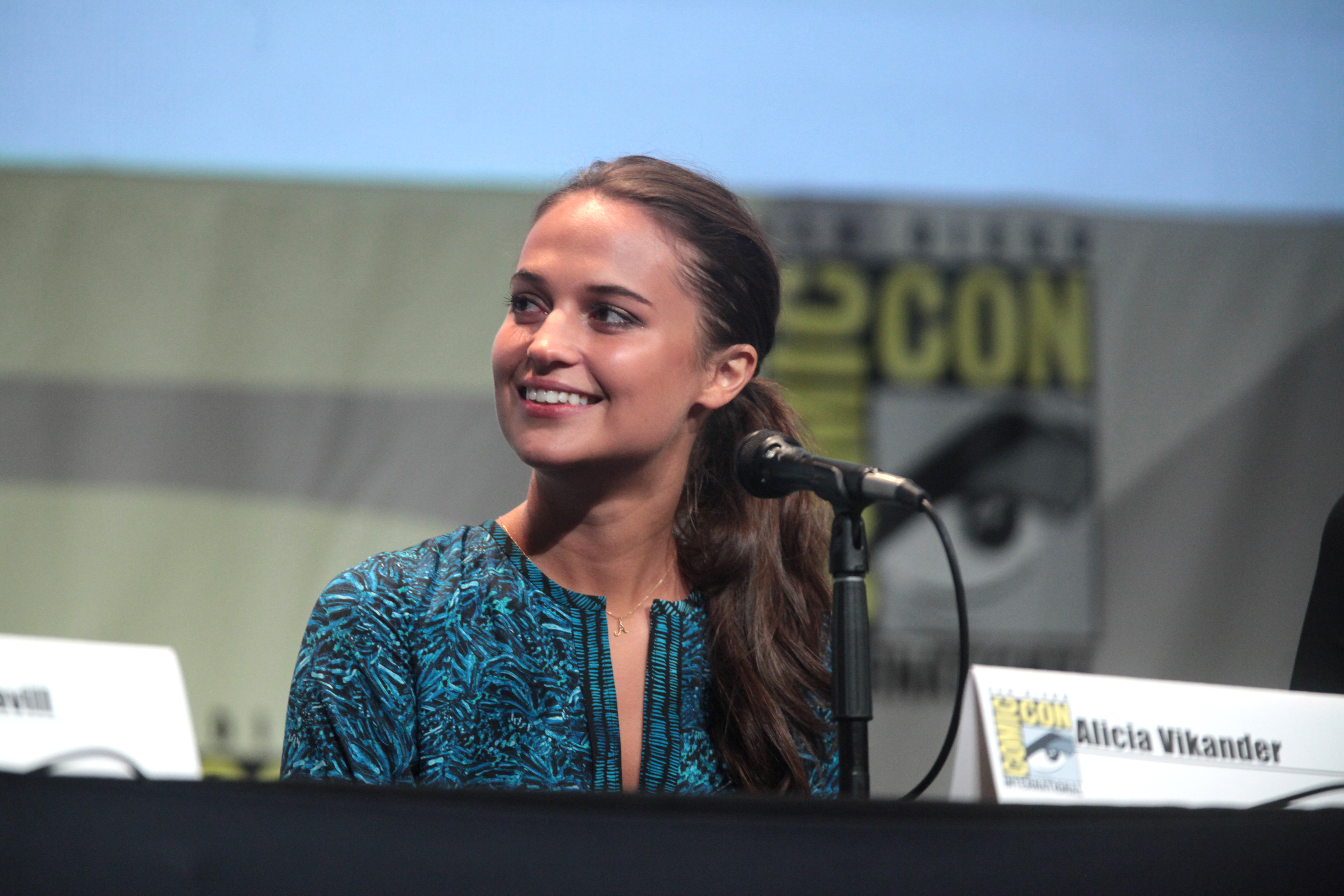 Alicia Vikander speaking at the 2015 San Diego Comic Con International, for "The Man from U.N.C.L.E.", at the San Diego Convention Center in San Diego, California.